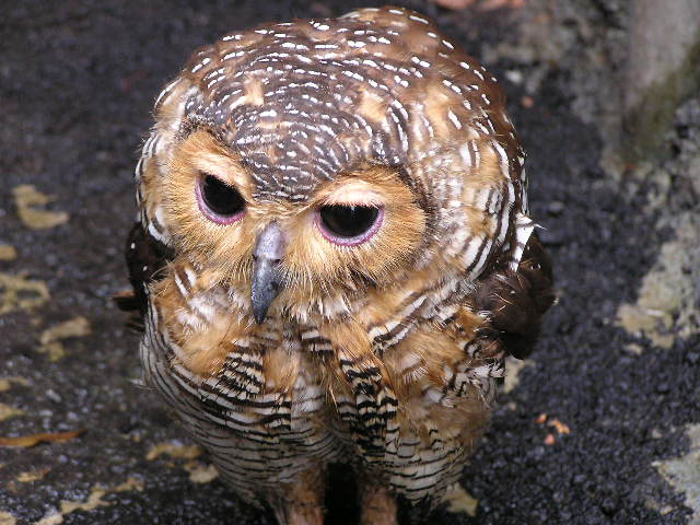 Juvenile Javan Spotted Wood-owl (Strix seloputo seloputo), Taman Safari near Bogor (Java, Indonesia)